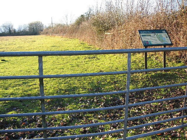 Clattinger Farm SSSI. The Clattinger Farm Site of Special Scientific Interest is now managed by Wiltshire Wildlife. It is unimproved grazing land very near the water table, and has interesting flora. There is a public footpath along the field boundary shown, leading to Oaksey.